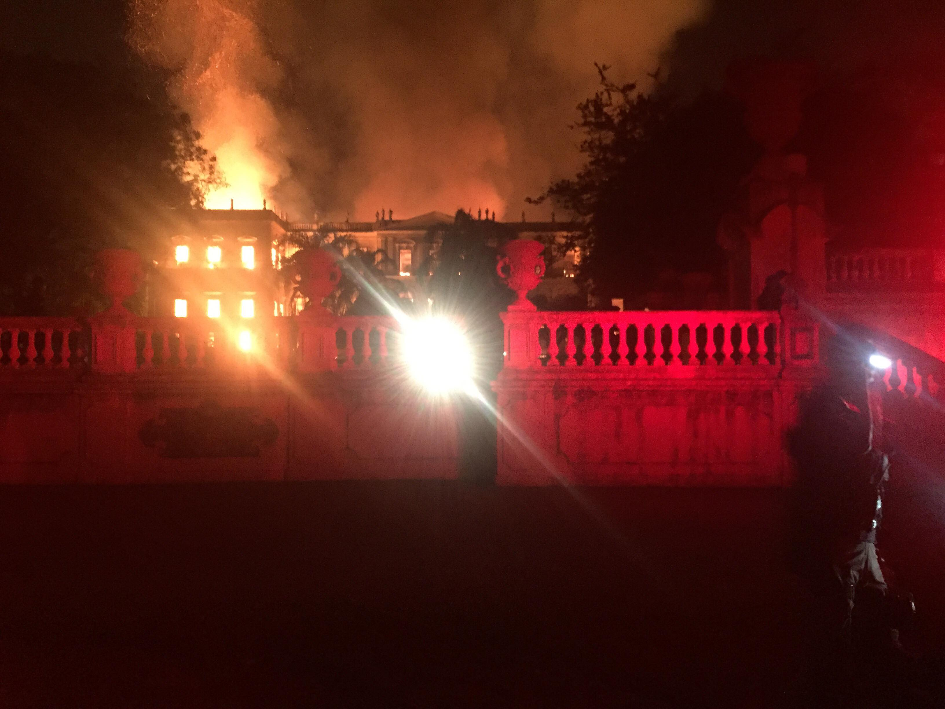 Fire at the National Museum of Brazil, in Rio de Janeiro, on September 2, 2018